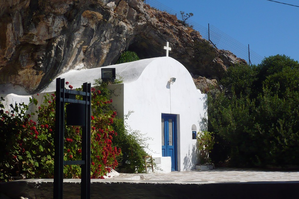 The Ai Giannis Spiliotis church at the Antiparos cave in Greece.